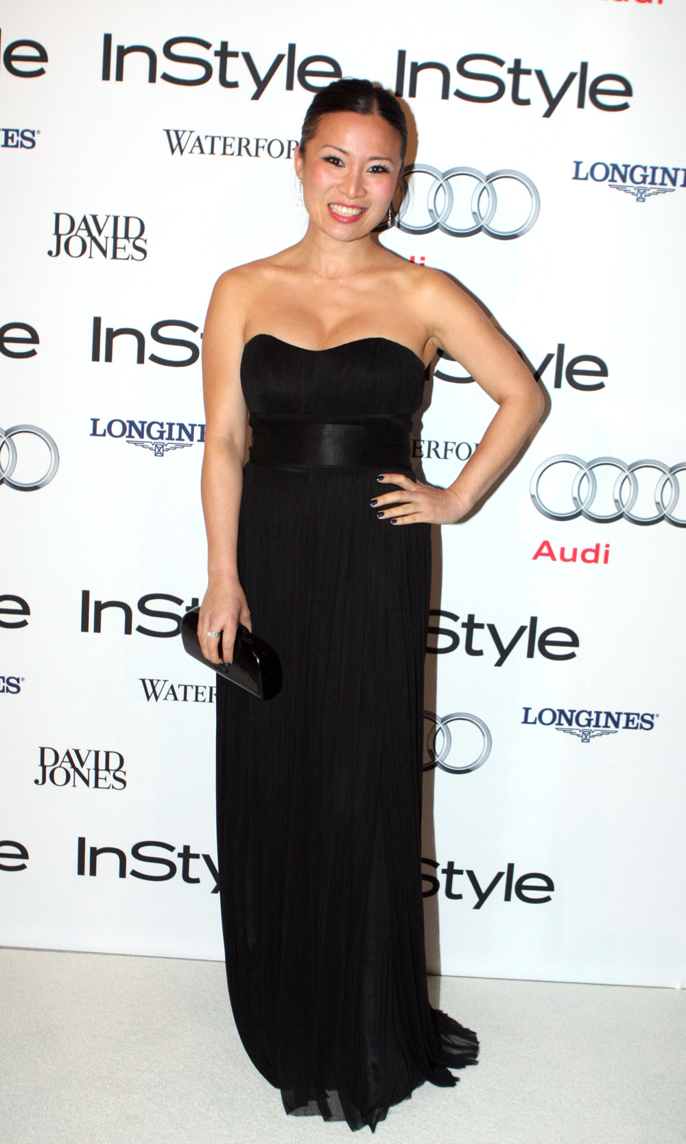 Poh Ling Yeow